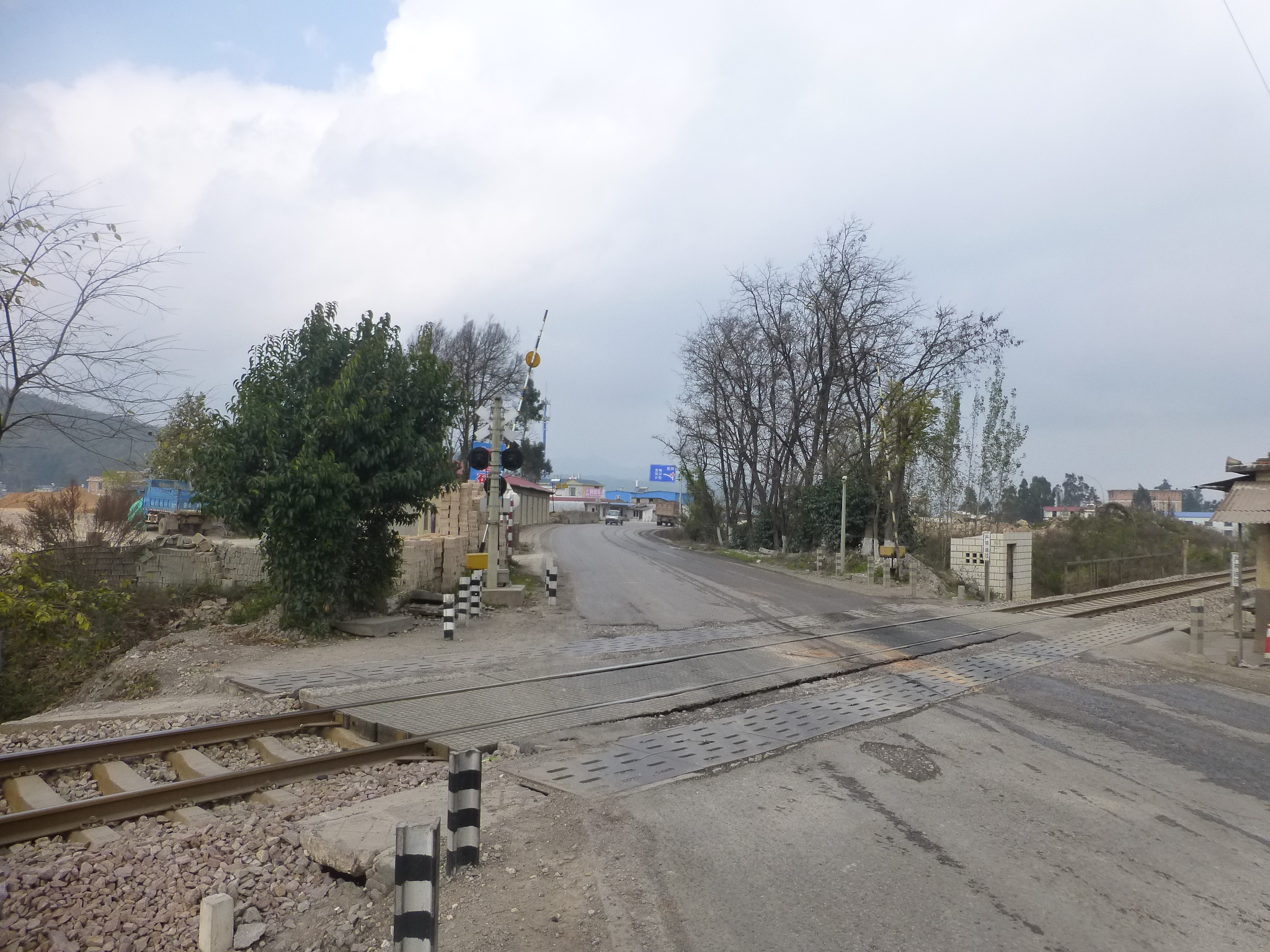 The Old Kunyang-Yuxi Railway at the crossing with China National Highway 213 (G213) near Dagucheng, in the southern part of Jinning County, Yunnan